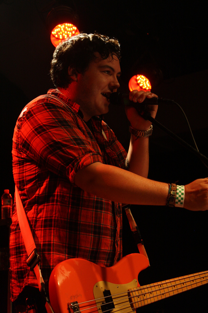 The Dangerous Summer @ Jammin Java